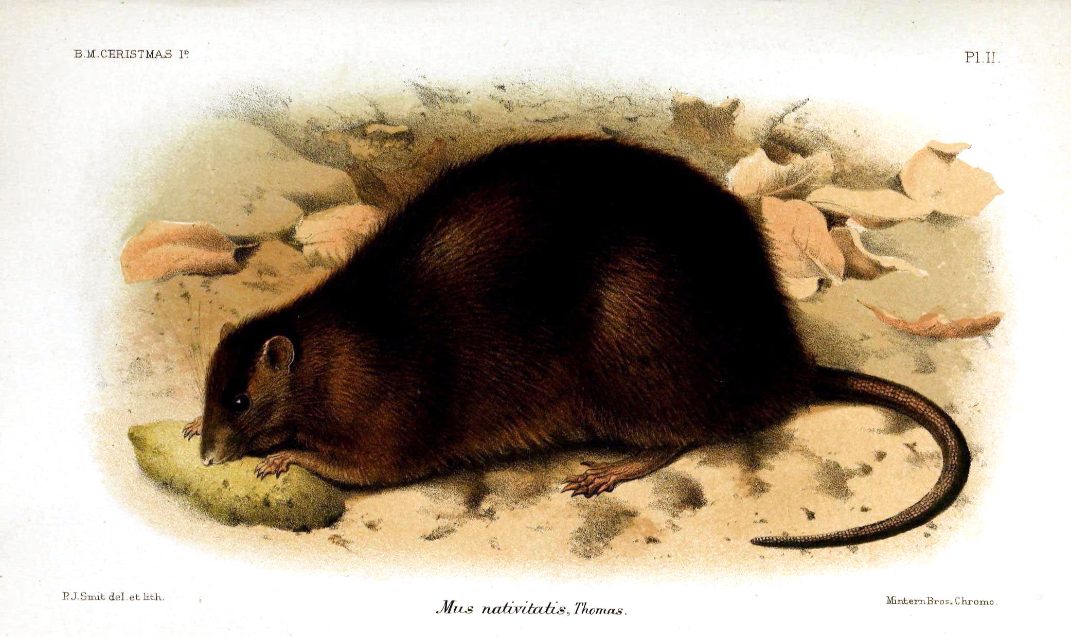 A monograph of Christmas Island (Indian Ocean) London,Printed by order of the Trustees,1900.